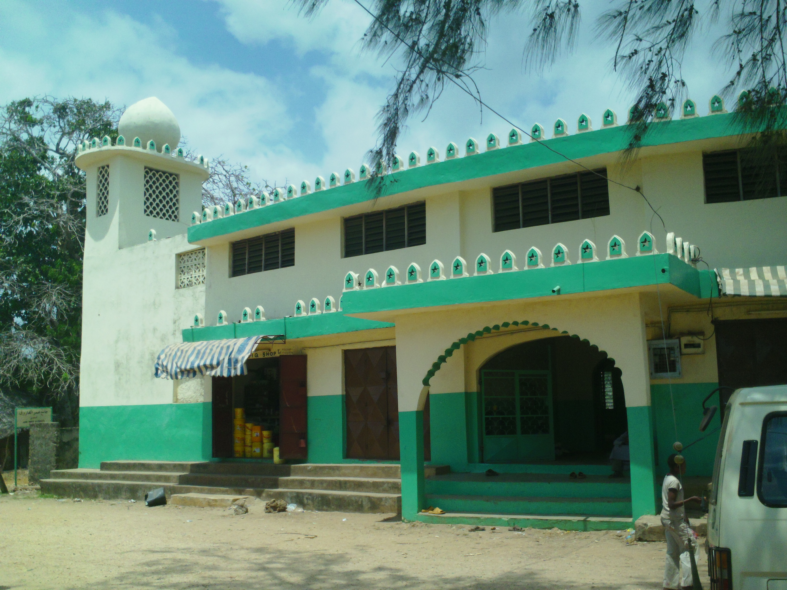 One of Shimoni's mosques.